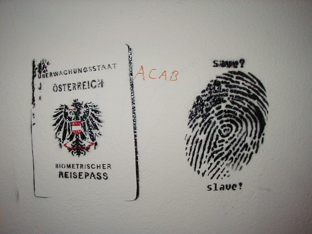 This very critical Pochoir/stencil can be found in a subway in Linz, and is placed there on several places. It shows an austrian passport and beside it shows a finger print which will be needed in the future such as more biometric information. The first state which required these information in every persons passport was the US. As many stencils/pochoirs this is also one of these which points on a danger/risk or on a doubtful laws and rules in the societies of the western world.